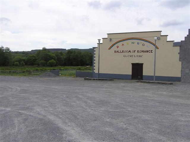 Rainbow "Ballroom of Romance", Glenfarne. The dance-hall was built by the late John McGivern in early 1934 and was known then as McGivern's Dance Hall. I am reliably informed that the passing writer who wrote the book "The Ballroom of Romance" was called William Trevor Cox, (now living in Crediton) but is not English. He was born in Mitchelstown in the south of Ireland but his chosen nom-de-plume is William Trevor. More at A BBC producer, having read William Trevor Cox's book, decided to make a film based on it. And so the film of the same name was screened worldwide. More at During the 7 weeks of lent there were no dances held in the Rainbow or any other hall in the diocese of Kilmore (except on St Patrick's night). This was a ruling by the Clergy of the diocese. During those weeks of no dancing John would organise concerts and other types of entertainment. - see later images 1089868